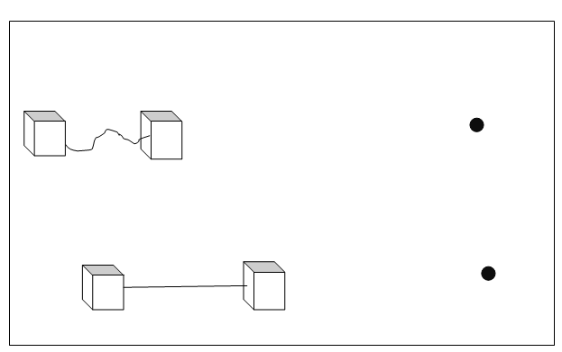 a microsoft word drawing